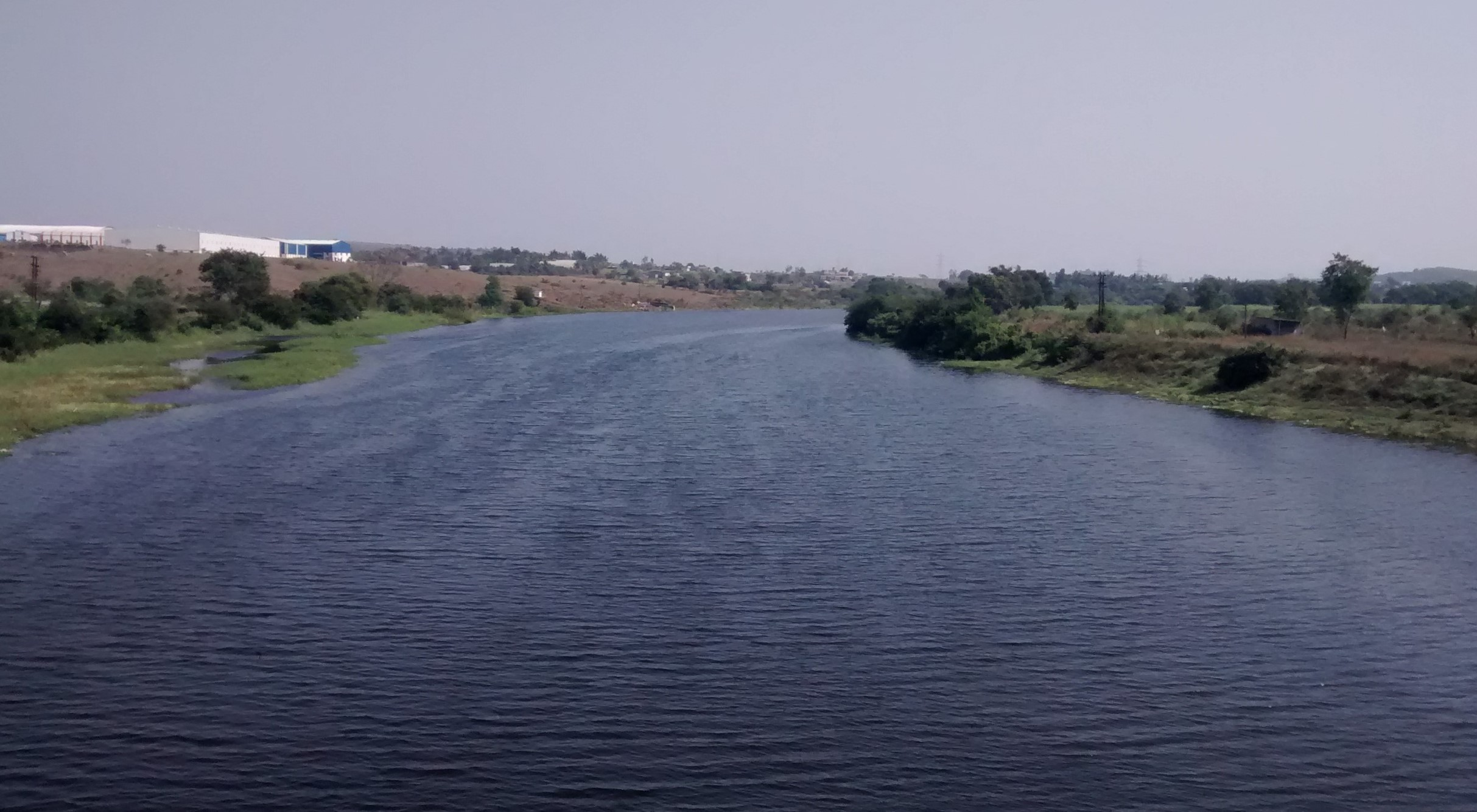 Indrayani river at Moshi.